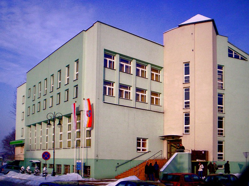 County authorities building, Chrzanow, Poland. Photo taken by myself.